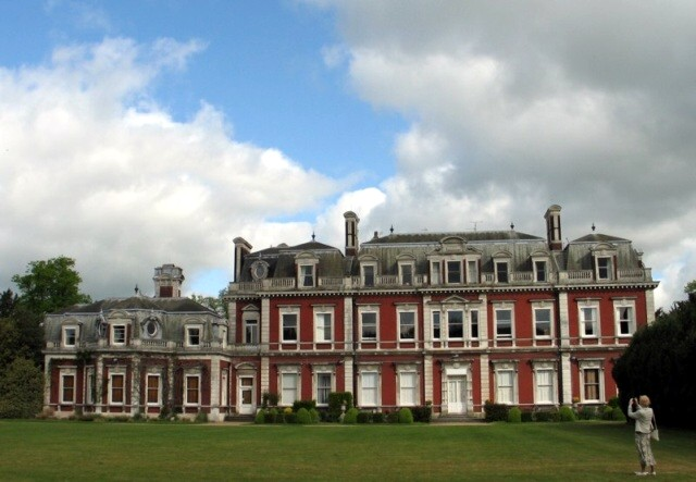 The Mansion, Tring Park. Tring Park [1], once the seat of a branch of the Rothschild banking family, is now home to Tring Park School for Performing Arts [2]. See also . . . . 1608831; 1608834; 1608835